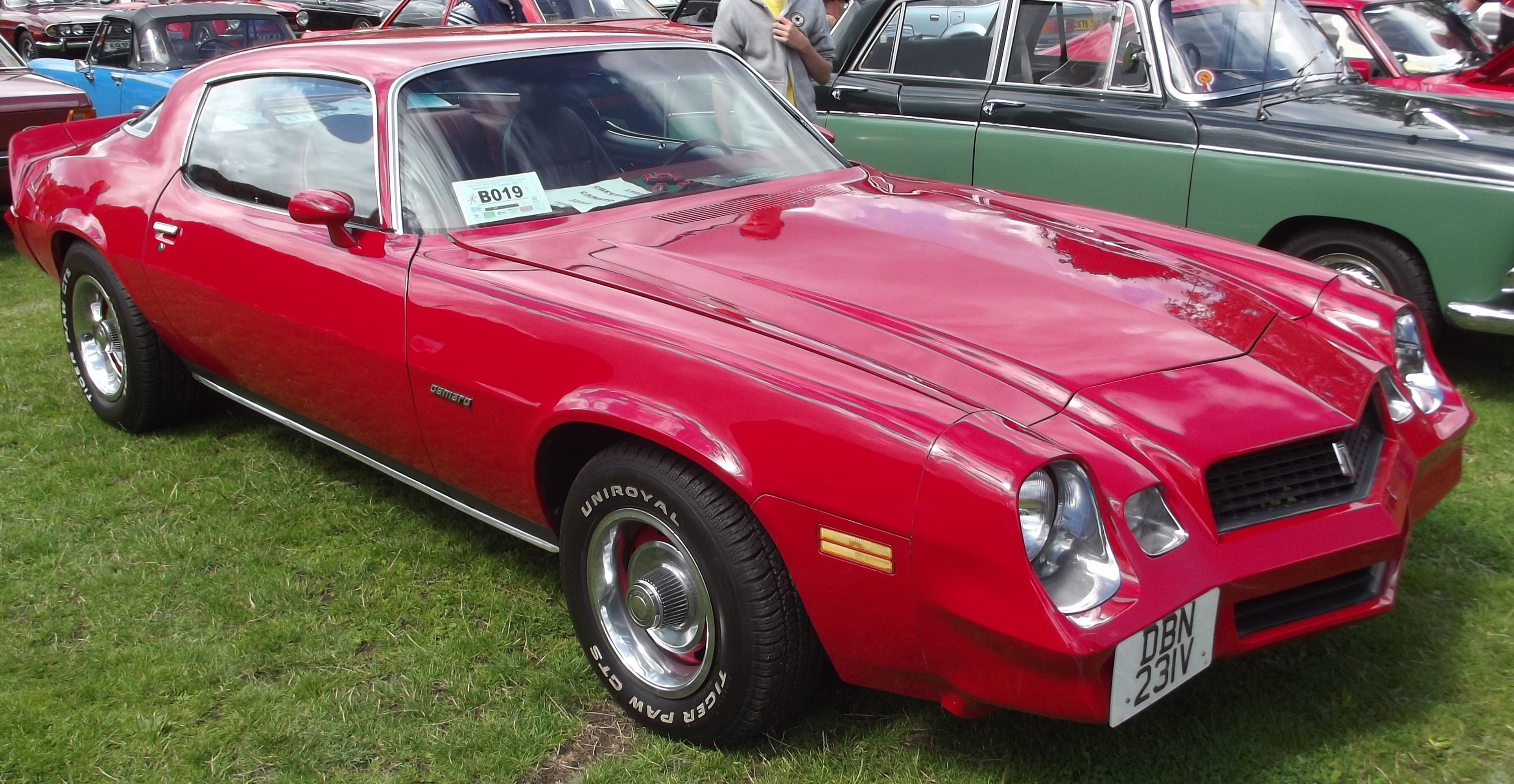 Chevy Camaro